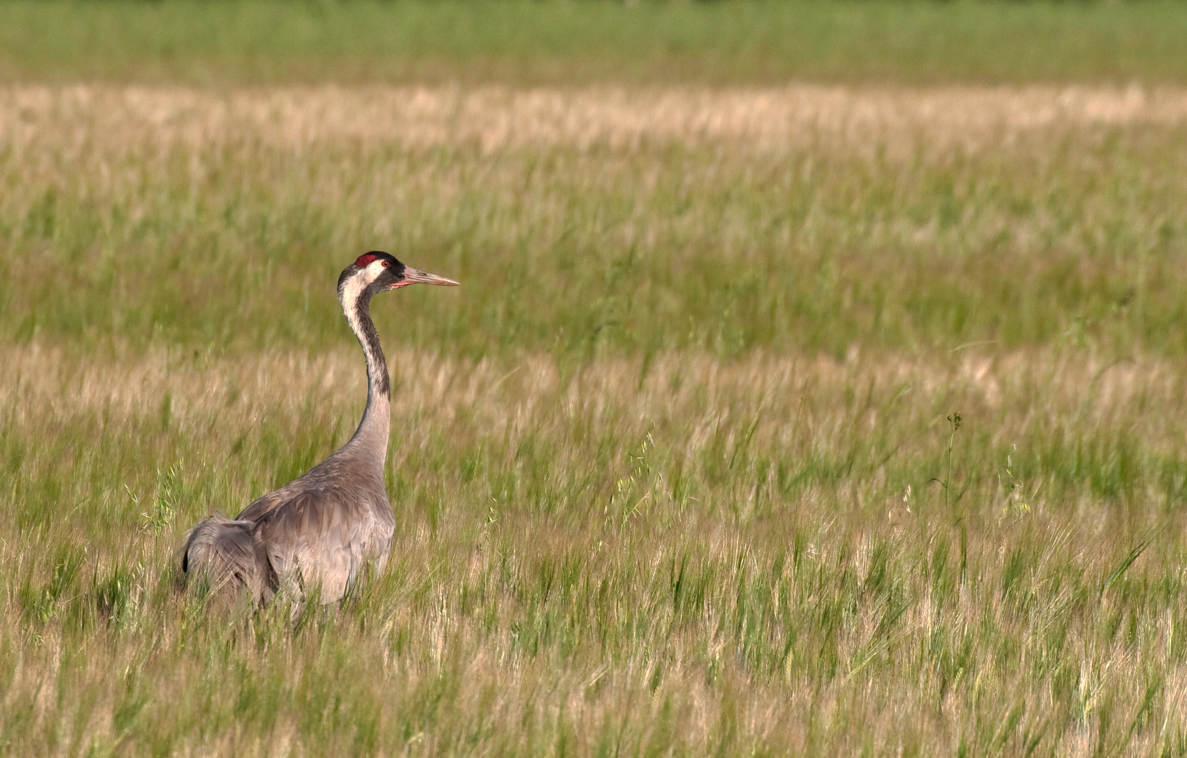 Common Crane (Grus grus) in Estonia.